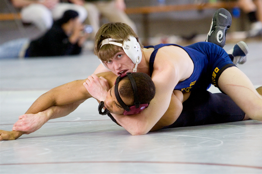 Two college students wrestling (collegiate, scholastic, or folkstyle) in the United States.